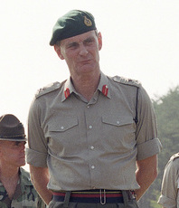 A Marine sniper wearing a ghillie suit stands before a static display of his weapons and equipment as a captain explains the display to the commandant of the British Royal Marines, Lieutenant General (LGEN) Sir Michael Wilkins, KCB, OBE